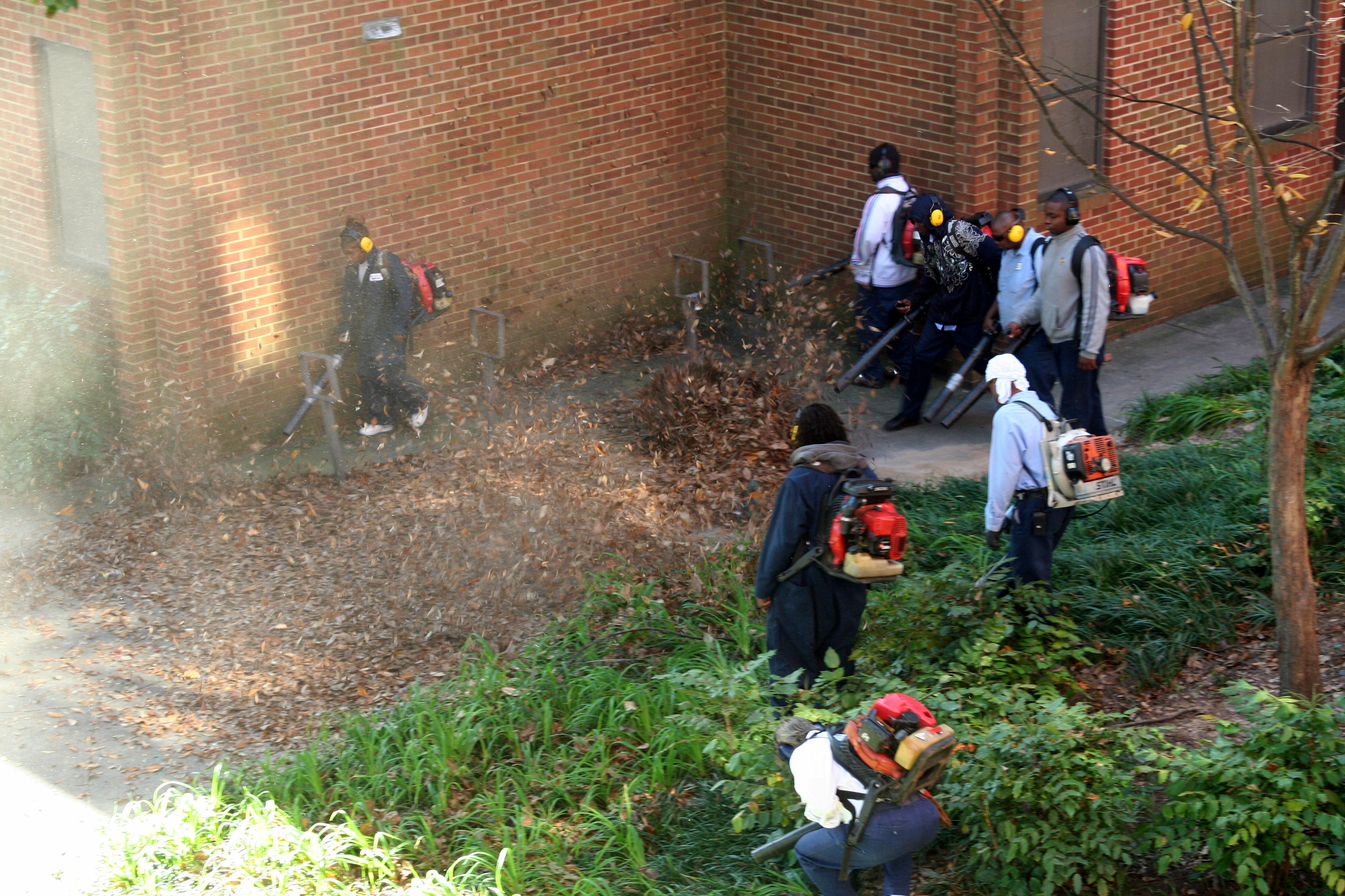 Workers with leaf blowers, Georgia Tech Facilities, Atlanta, Georgia, USA. – "They're really maximizing their blowing power. Do we really need these many people on these leaves?"